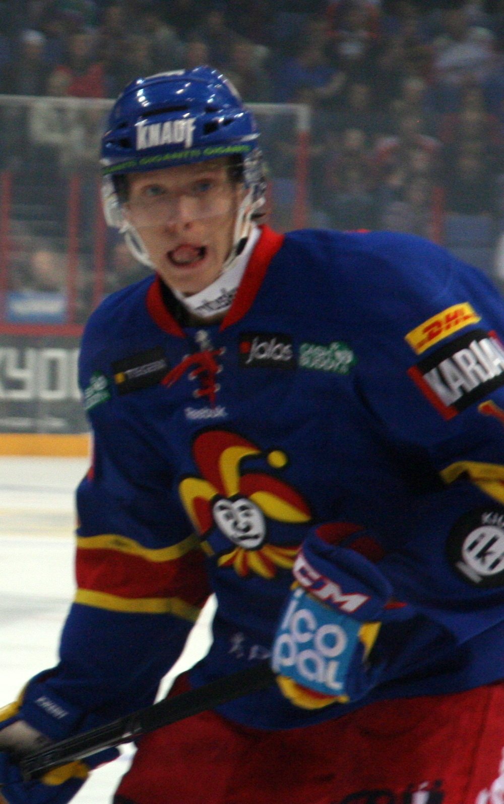 Ice Hockey Team Helsingin Jokerit's Defender #10 John Klingberg